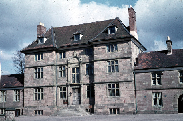 Great Castle House, Monmouth, 1959. Picture scanned from old Agfacolor slide.